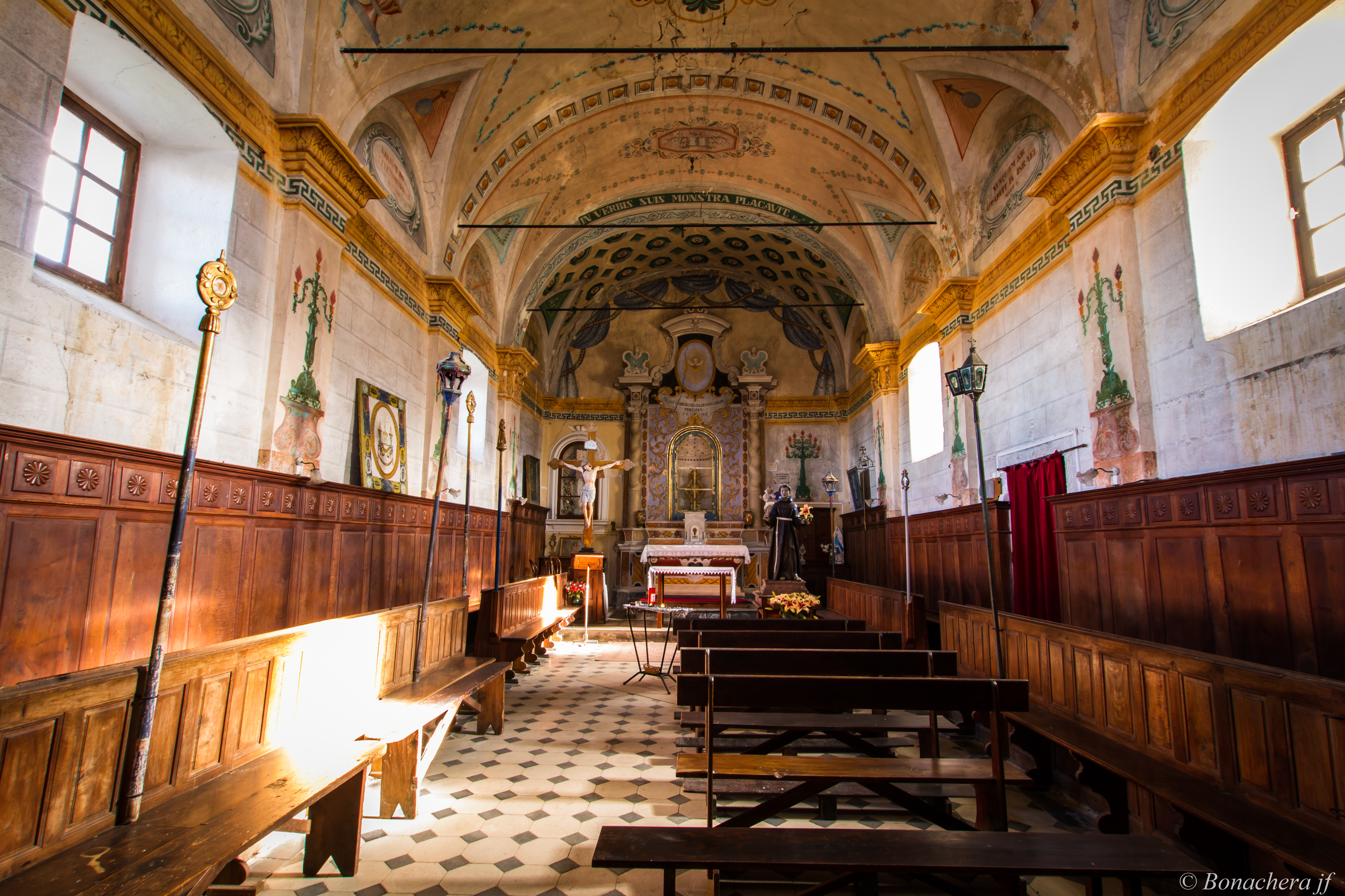 Chapelle de la Confrérie St Antoine d Sant'Antuninu